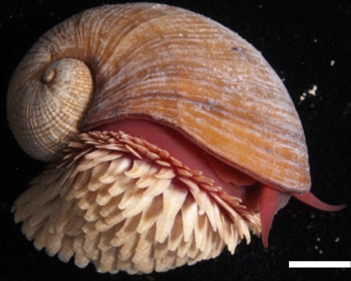 Photo of right side view of Chrysomallon squamiferum from the Solitaire vent field. Scale bar is 1 cm.